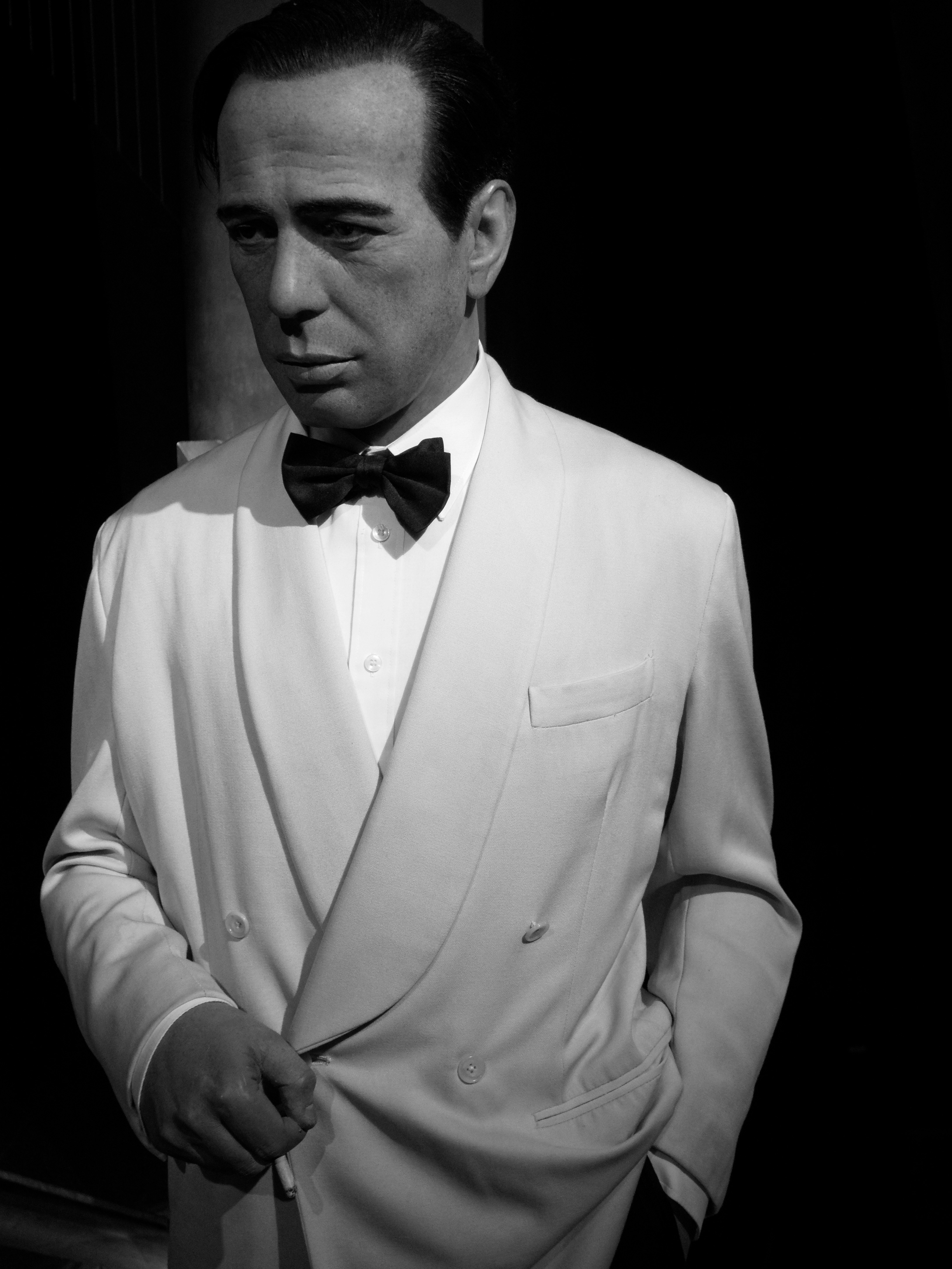 Humphrey Bogart wax figure at Madame Tussauds London.